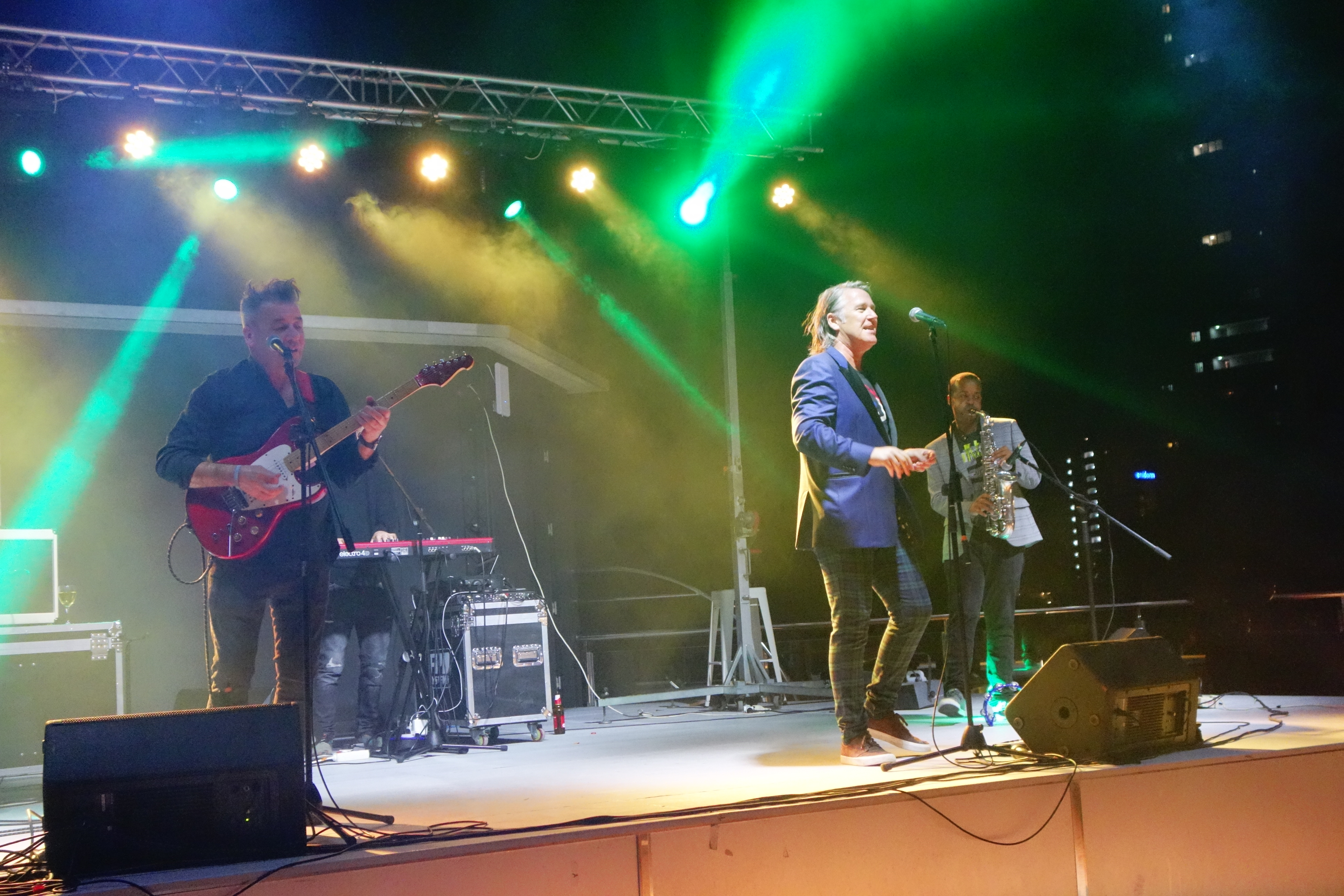 4-member band format, including Gary Daly (lead voice), Eddie Lundon (backing vocals, lead guitar), Jack Hymers (keyboards and sequencing) and Eric Animan (saxophone, melodica)